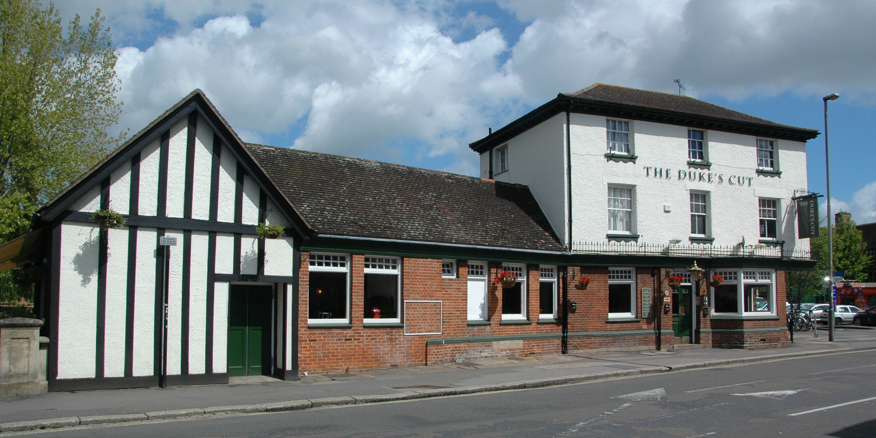 Pub at 1–3 Park End Street, Oxford. Built in the late 18th- or early 19th-century, it spent most of its history as The Queen's Arms. In recent decades it has been called Rosie O'Grady's and now the Duke's Cut.